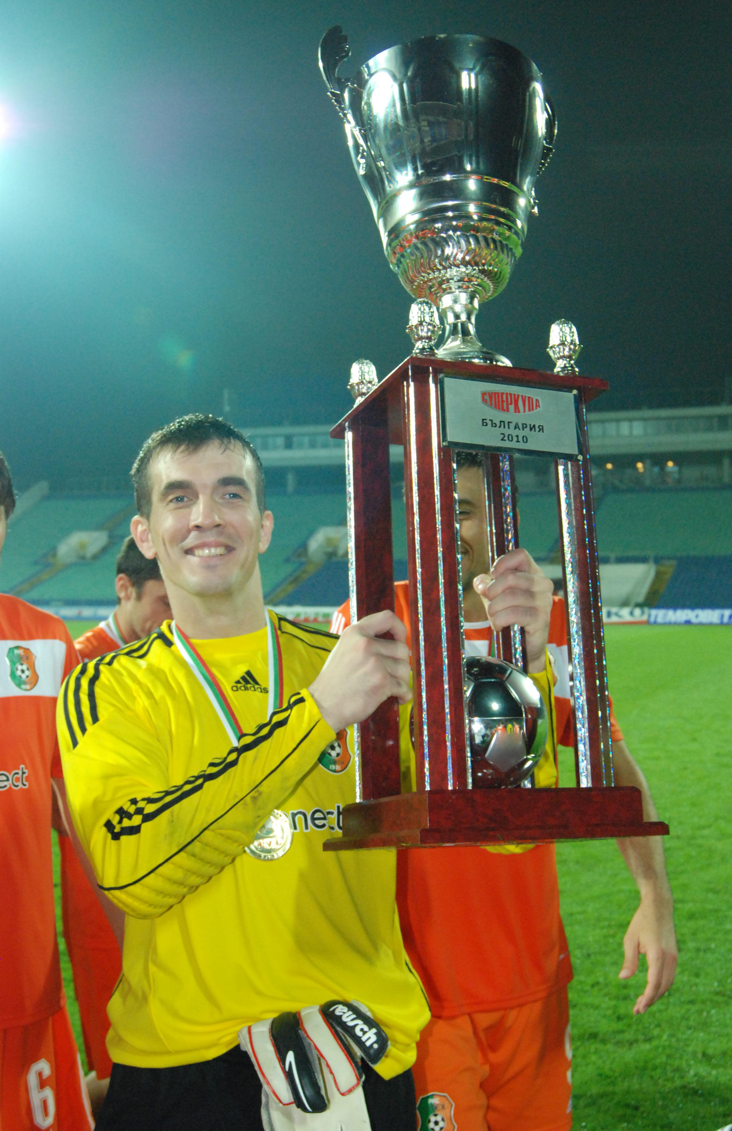 Uroš Golubović